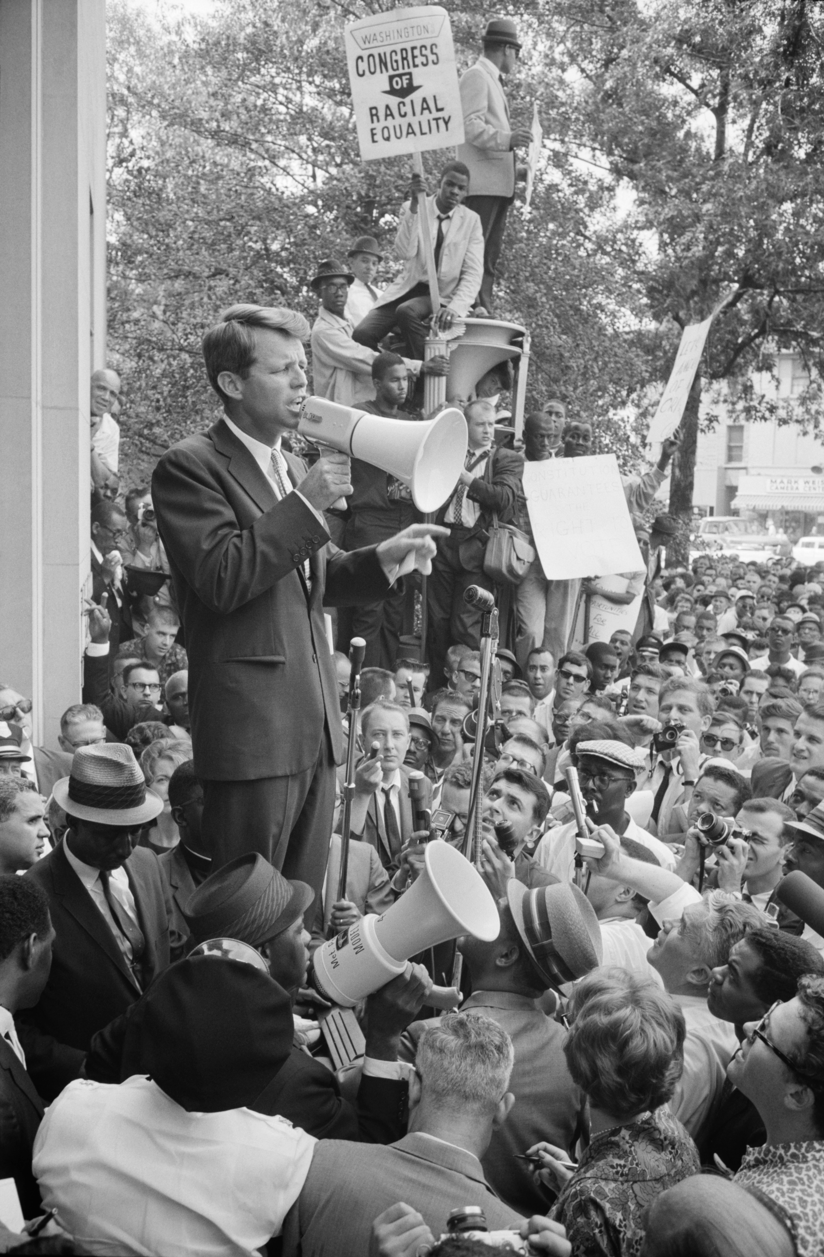 Attorney General Robert F. Kennedy speaking to a crowd of African Americans and whites through a megaphone outside the Justice Department; sign for Congress of Racial Equality is prominently displayed.